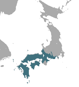 Japanese Mole (Mogera wogura) range